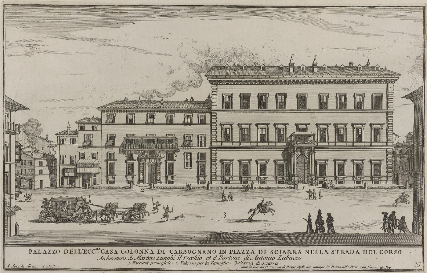 View of the Palazzo Carbognano (Palazzo Colonna di Sciarra) in the Piazza Sciarra along the Via del Corso. Includes a view of the Palazzo Sciarra's front facade (1 in image), the Palazzo per la Famiglia [of the Sciarra family] (2 in image), and a view of the Piazza di Sciarra (3 in image).